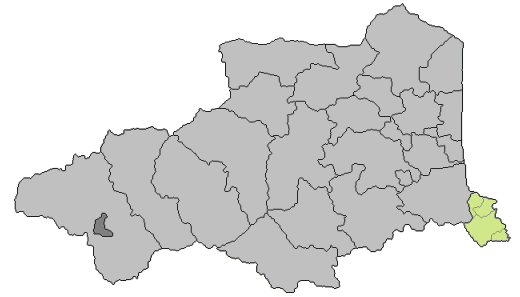 Canton of Port-Vendres in the French Pyrénées-Orientales department.